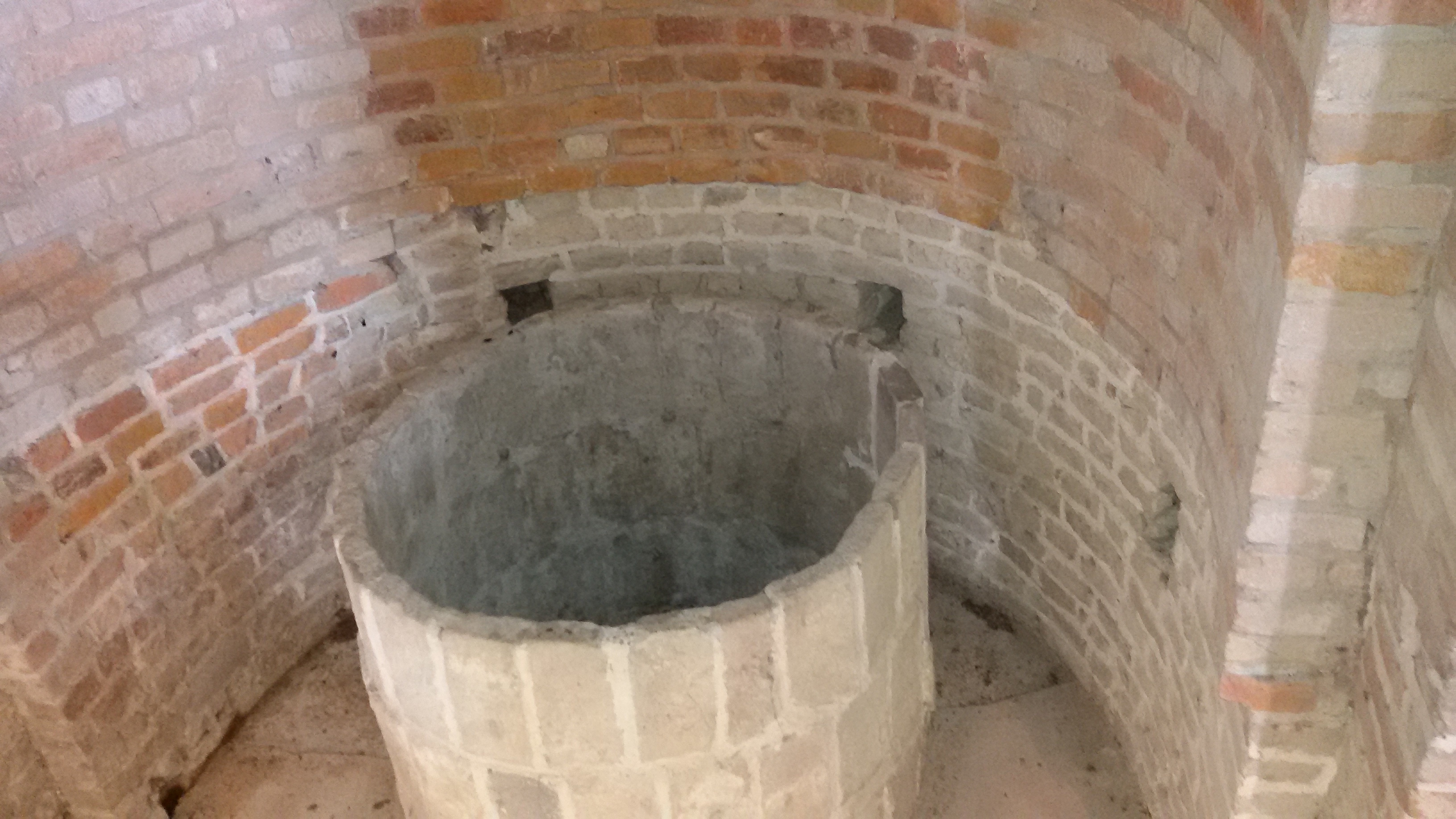 San Genesio Curch San Secondo